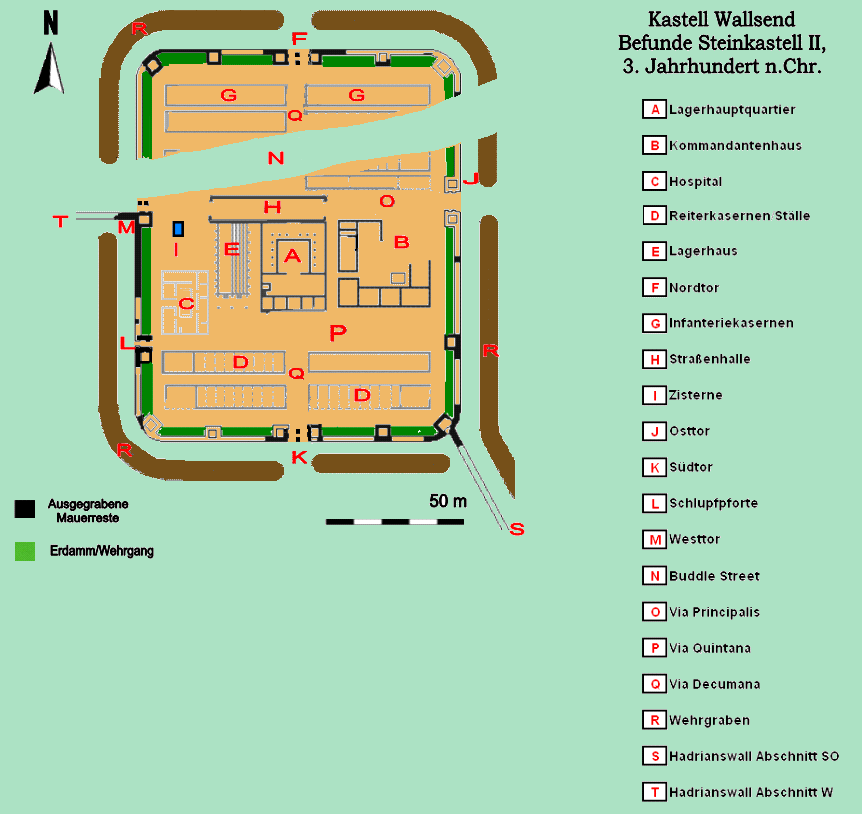 Roman castle Wallsend/Segedunum, GB, excavation plan Phase II, 3rd century AD.